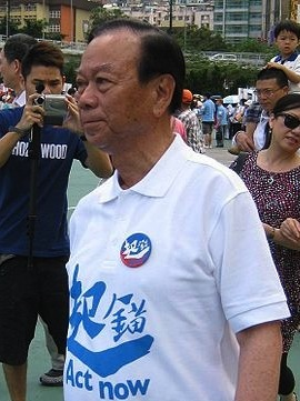 Lau Wong-fat attending a campaign of supporting 2012 Political Reform.